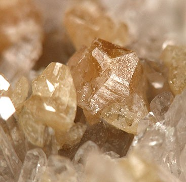 Monazite-(Ce) Locality: Siglo Veinte Mine (Siglo XX Mine; Llallagua Mine; Catavi), Llallagua, Rafael Bustillo Province, Potosí Department, Bolivia (Locality at ) Size: 6.0 x 3.8 x 2.7 cm. Monazite gets its name from the Greek word "monazein", which means "to be alone", in allusion to its isolated crystals and their rarity when first found. Monazite is usually found in granitic pegmatites, but these crystals are found in hydrothermal tin veins where is an absolute absence of Thorium (usually a trace element in Monazite). This is a very good, well crystallized, rare specimen hosting sharp, lustrous, translucent, orange-pink, twinned crystals of Monazite-(Ce) measuring up to 3 mm on Quartz crystals on matrix. These twins are some of the most distinct and impressive twinned Monazite crystals I have seen from Bolivia. The crystals actually perform a color change in different lighting ranging from orange-pink to almost colorless depending upon the light source. This specimen has some good sized crystals for this mine. This piece is from the same vein as the classic material which was first described by Sam Gordon and Mark Bandy over 50 years ago.